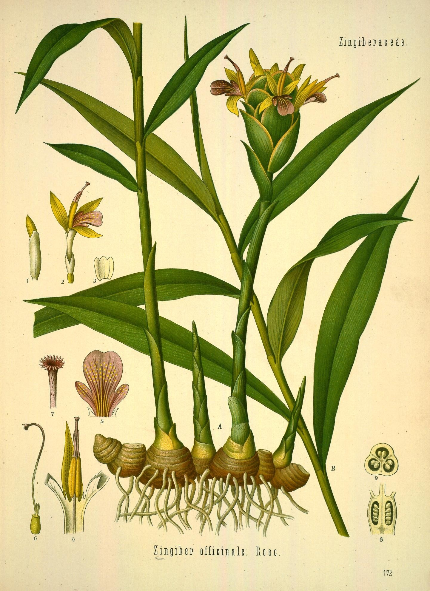 Illustration of Zingiber officinale Roscoe